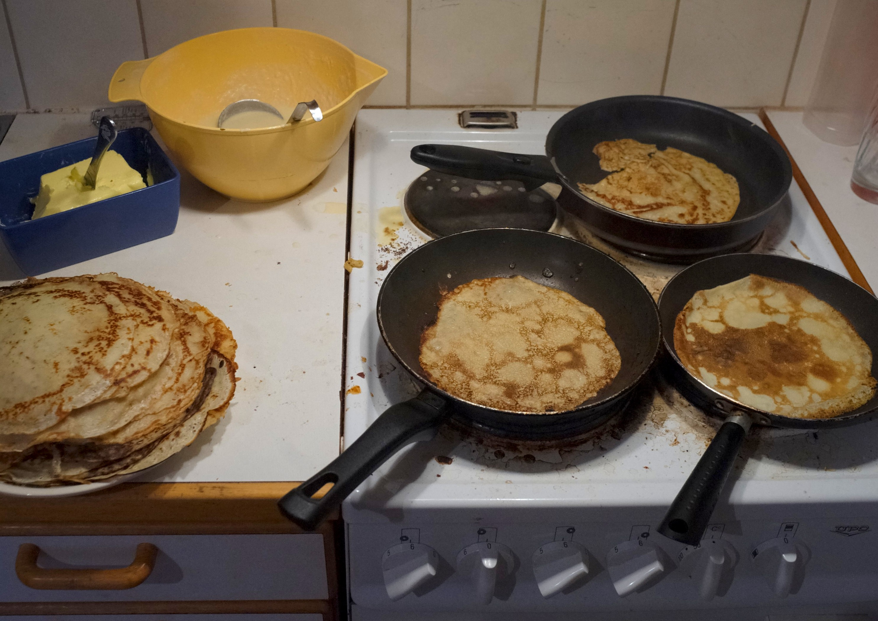 Making Of Crepes